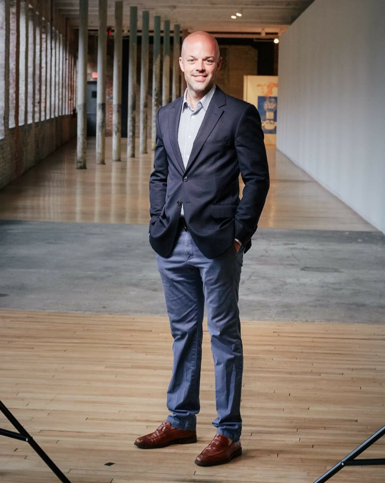 Hinds at Mass MoCA